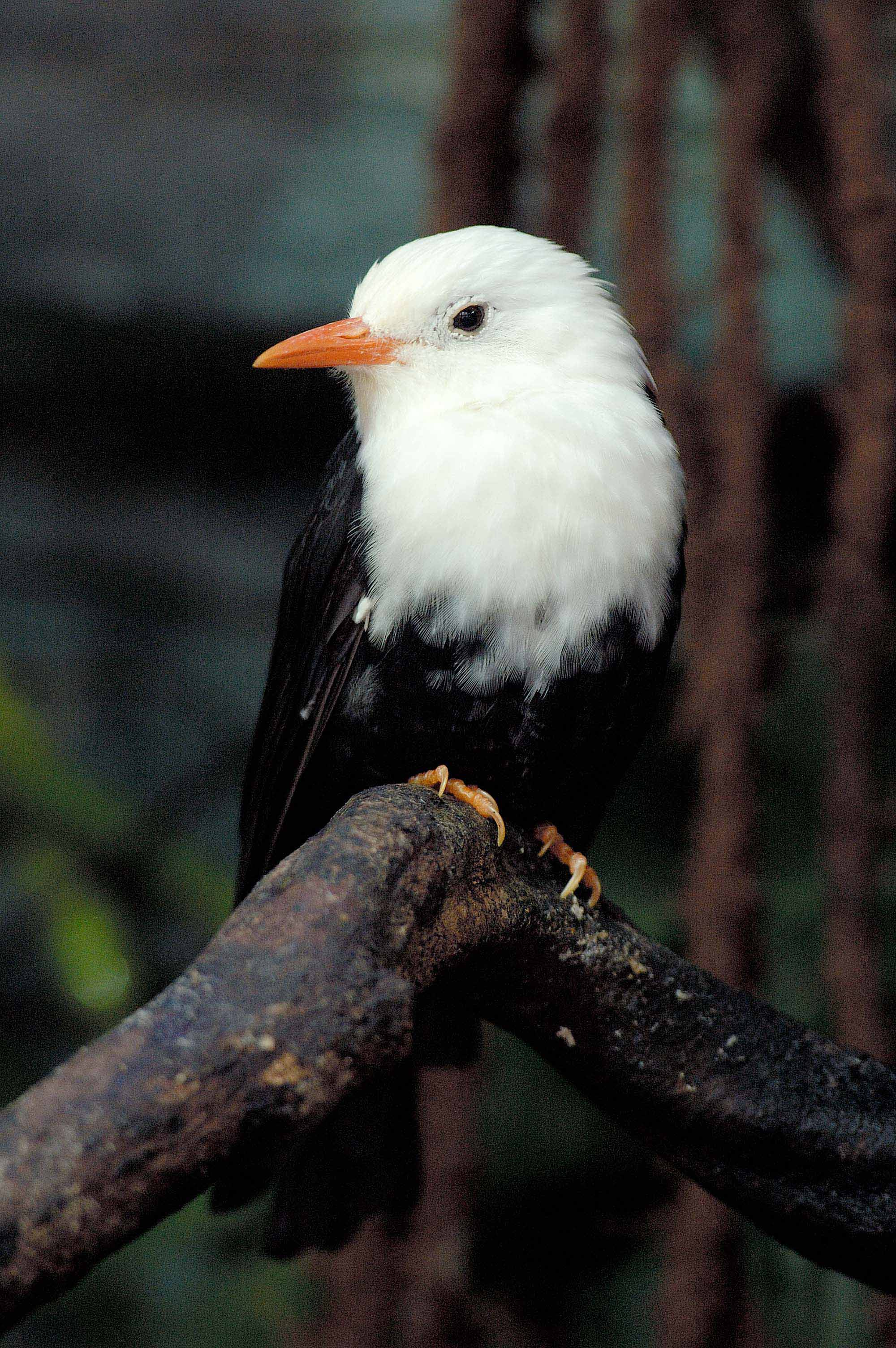 Black Bulbul, also known as the Himalayan Black Bulbul, perching on a branch.